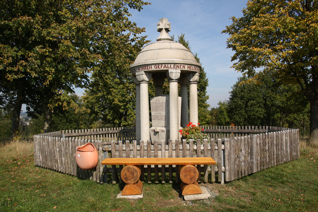 Memorial for their warriors who died in the first and second World War of the former municipality Mechlenreuth